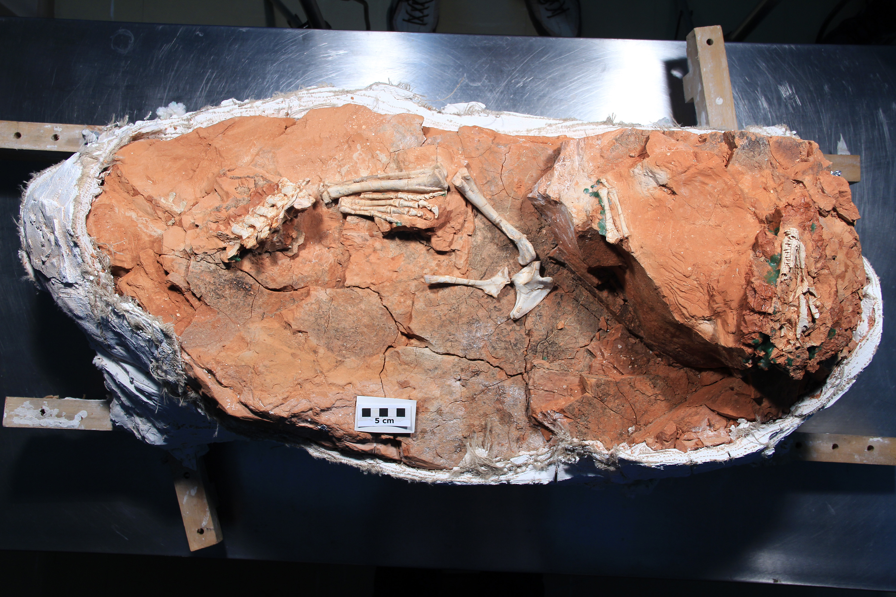 Descoberta realizada em 2009, em São João do Polêsine (RS), gerou estudos que contribuem para a compreensão da evolução dos dinossauros na Terra. Saiba mais no site .